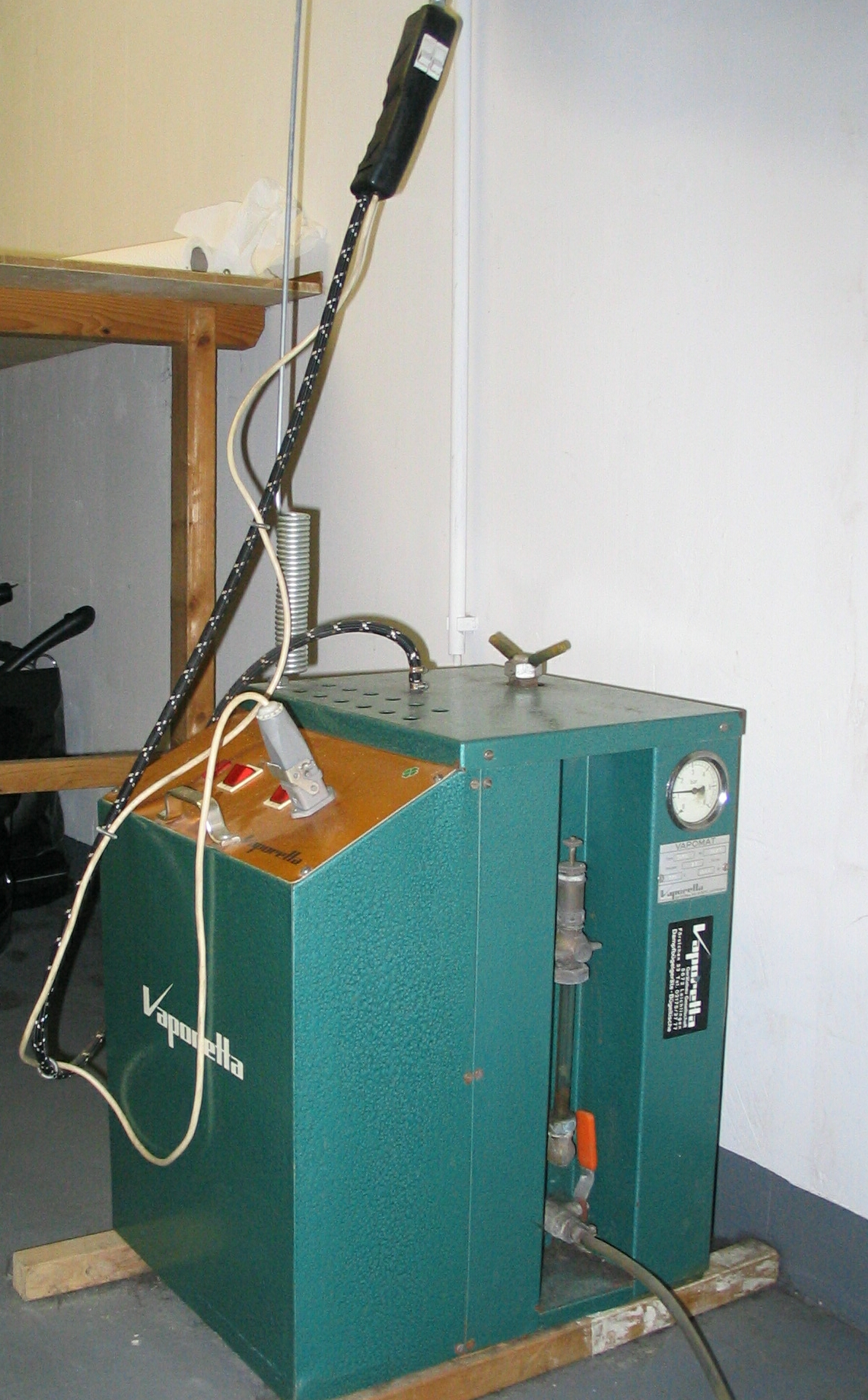 Furrier's tools: Steam generator